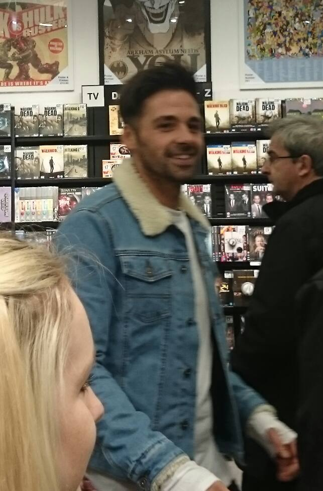 Ben Haenow at an album signing at HMV in Braehead, Renfrewshire, Scotland on 14 November 2015